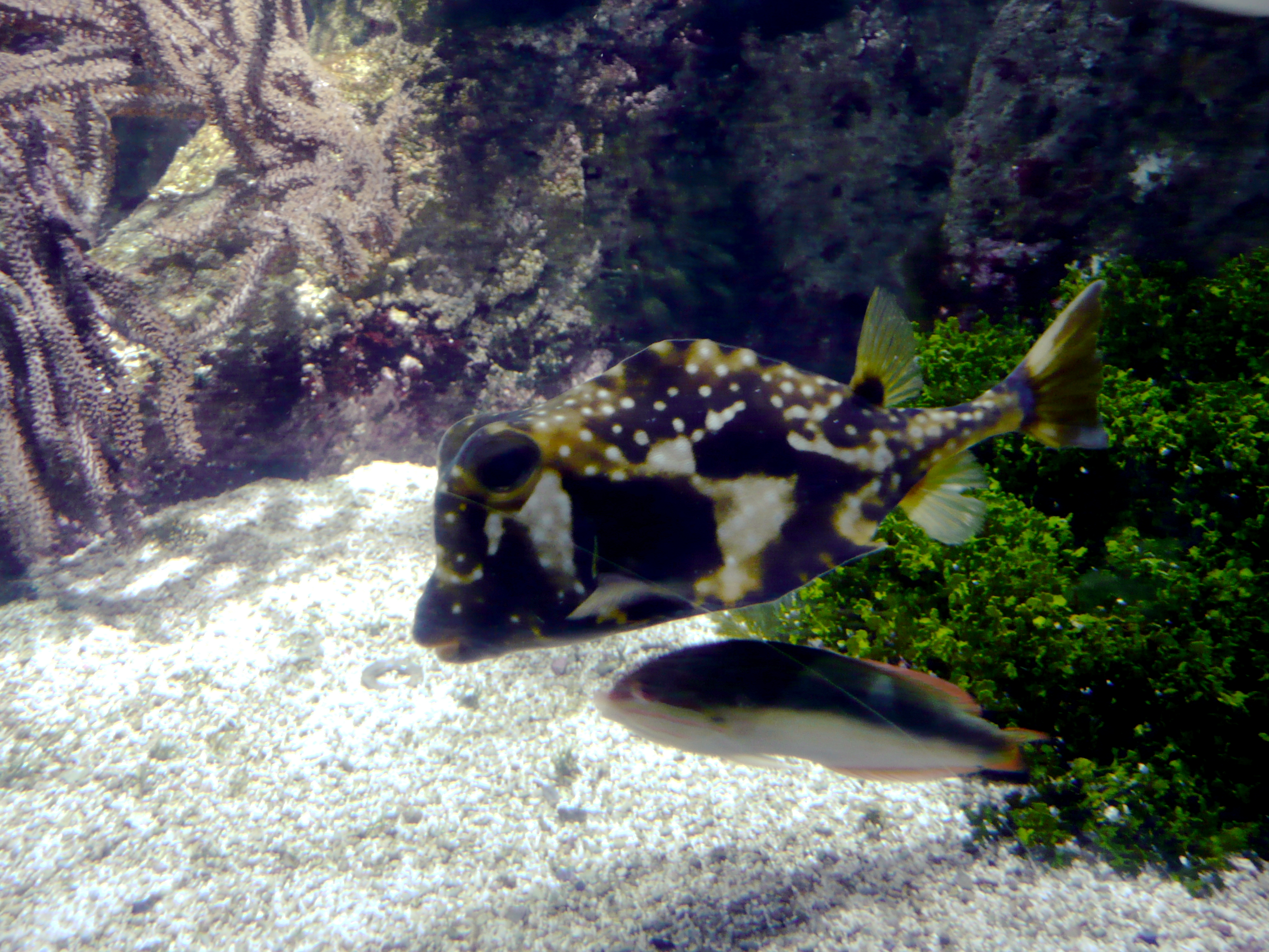 Lactophrys trigonus in the Aquarium de La Rochelle